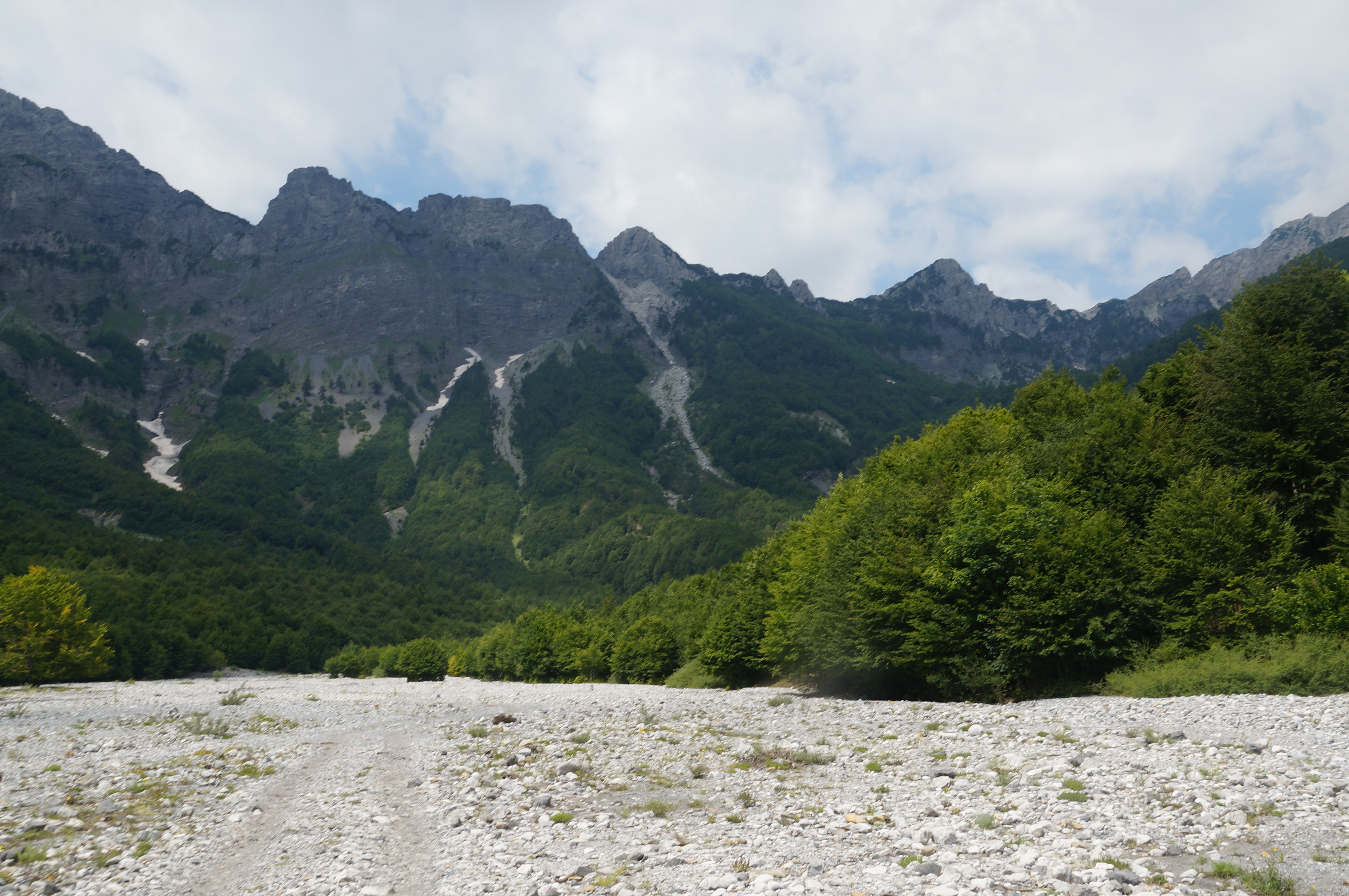 Valbona valley in Rragam village, Albania